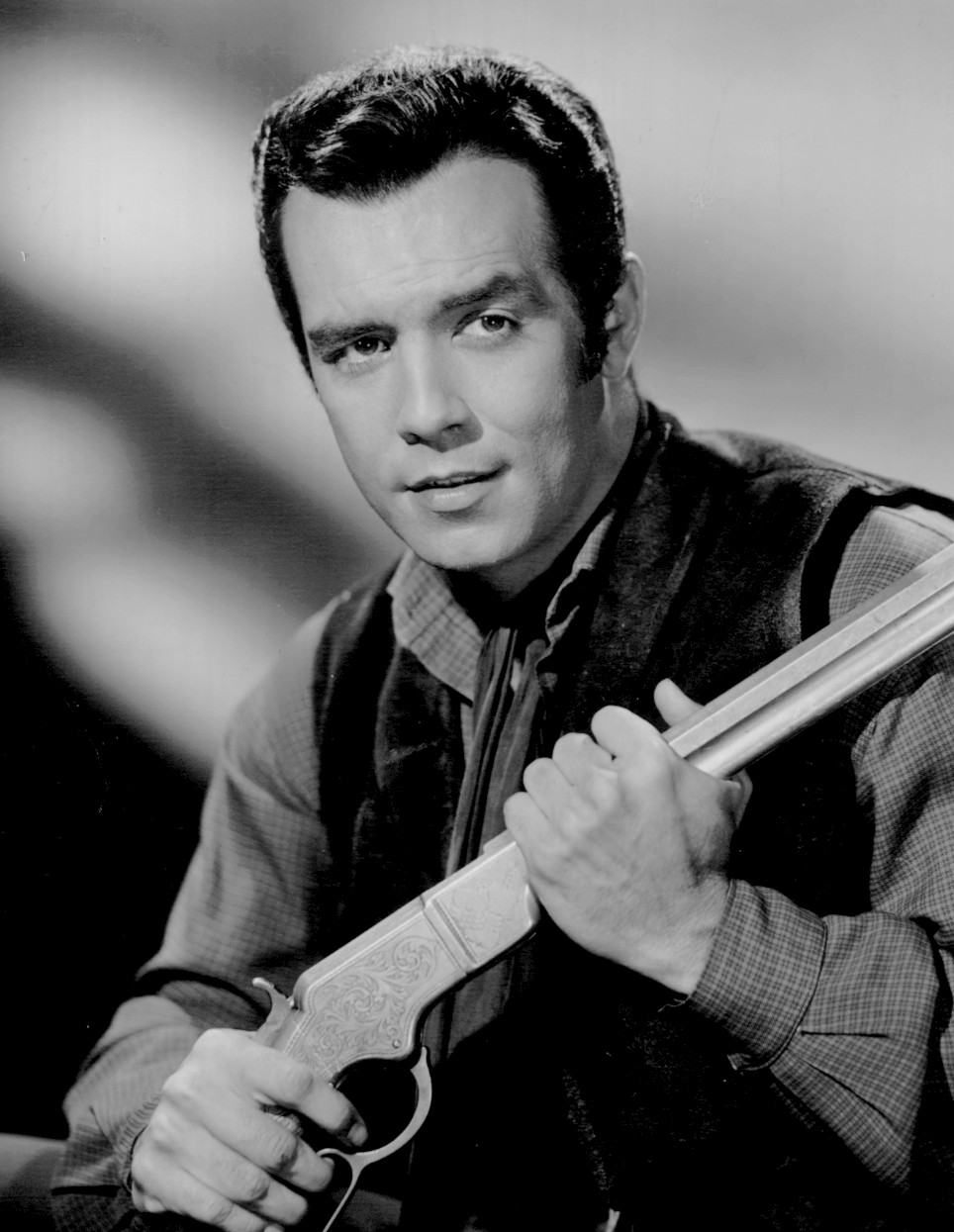 Photo of Pernell Roberts as Adam Cartwright from the television series Bonanza.